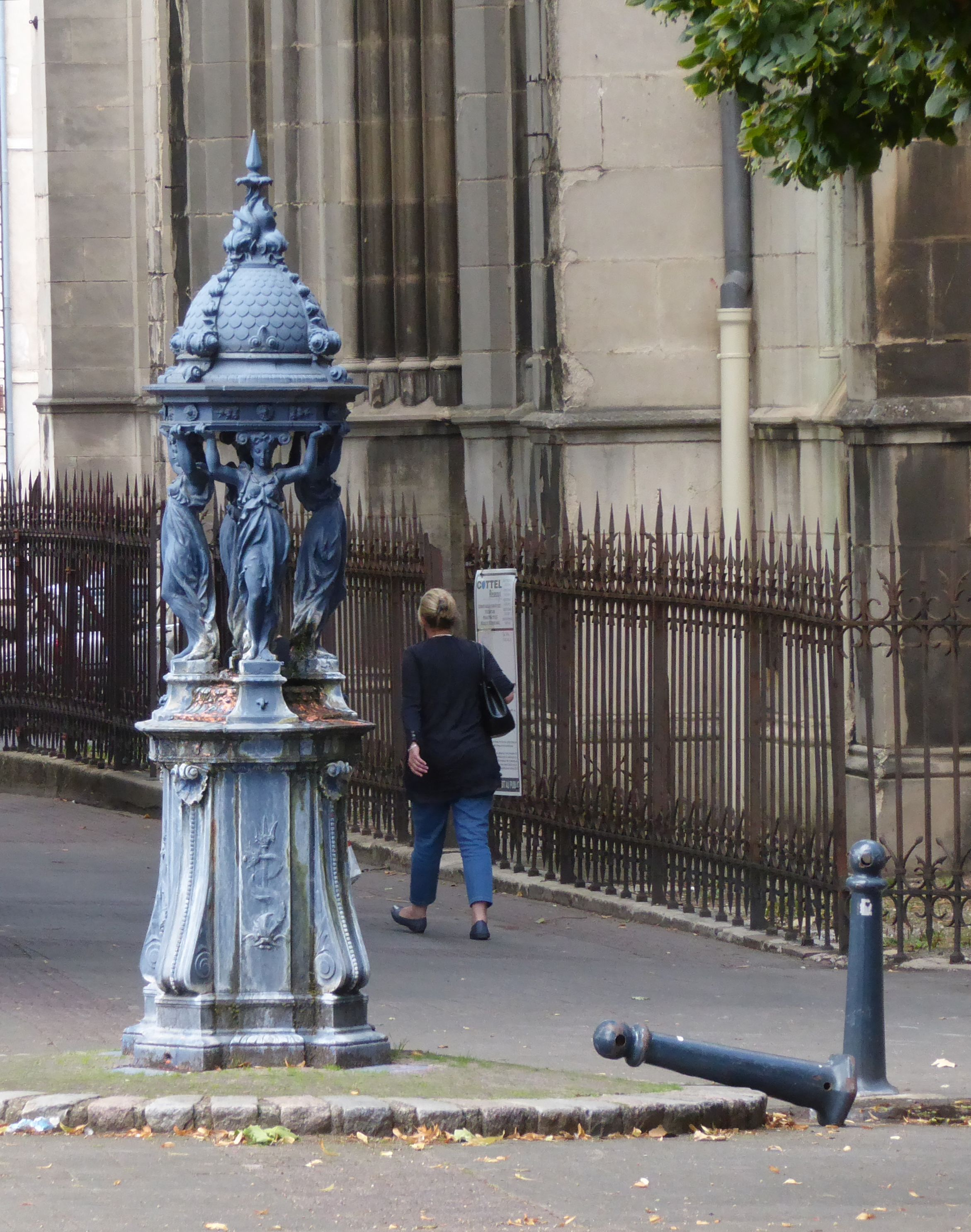 Wallace fountain in Nancy (Lorraine).